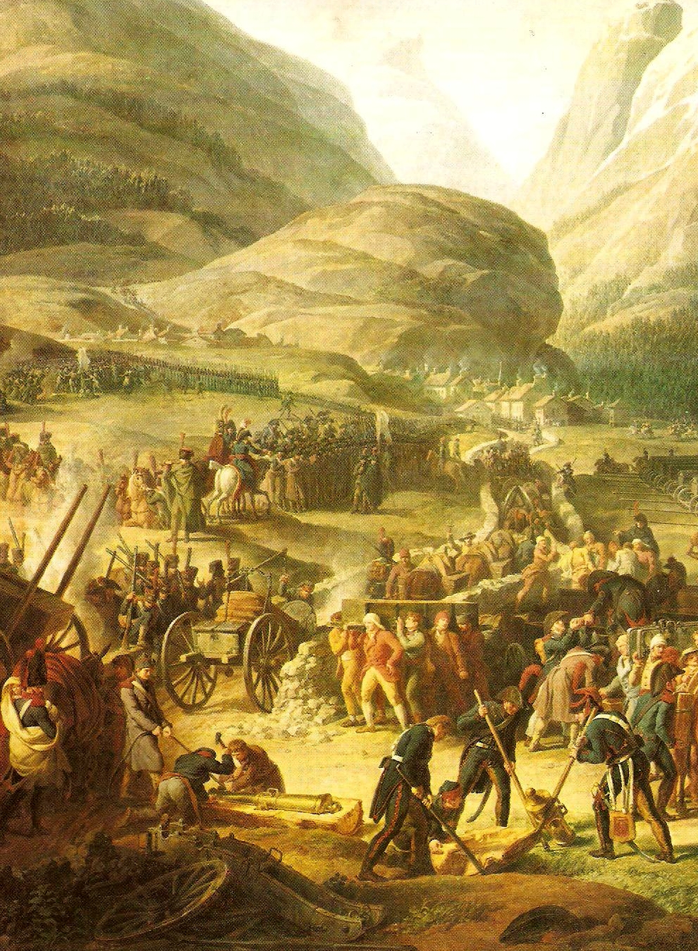 French army Crossing the Alps (1800)